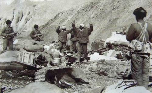 Indian soldiers surrender to Chinese forces during Sino-Indian War in 1962.